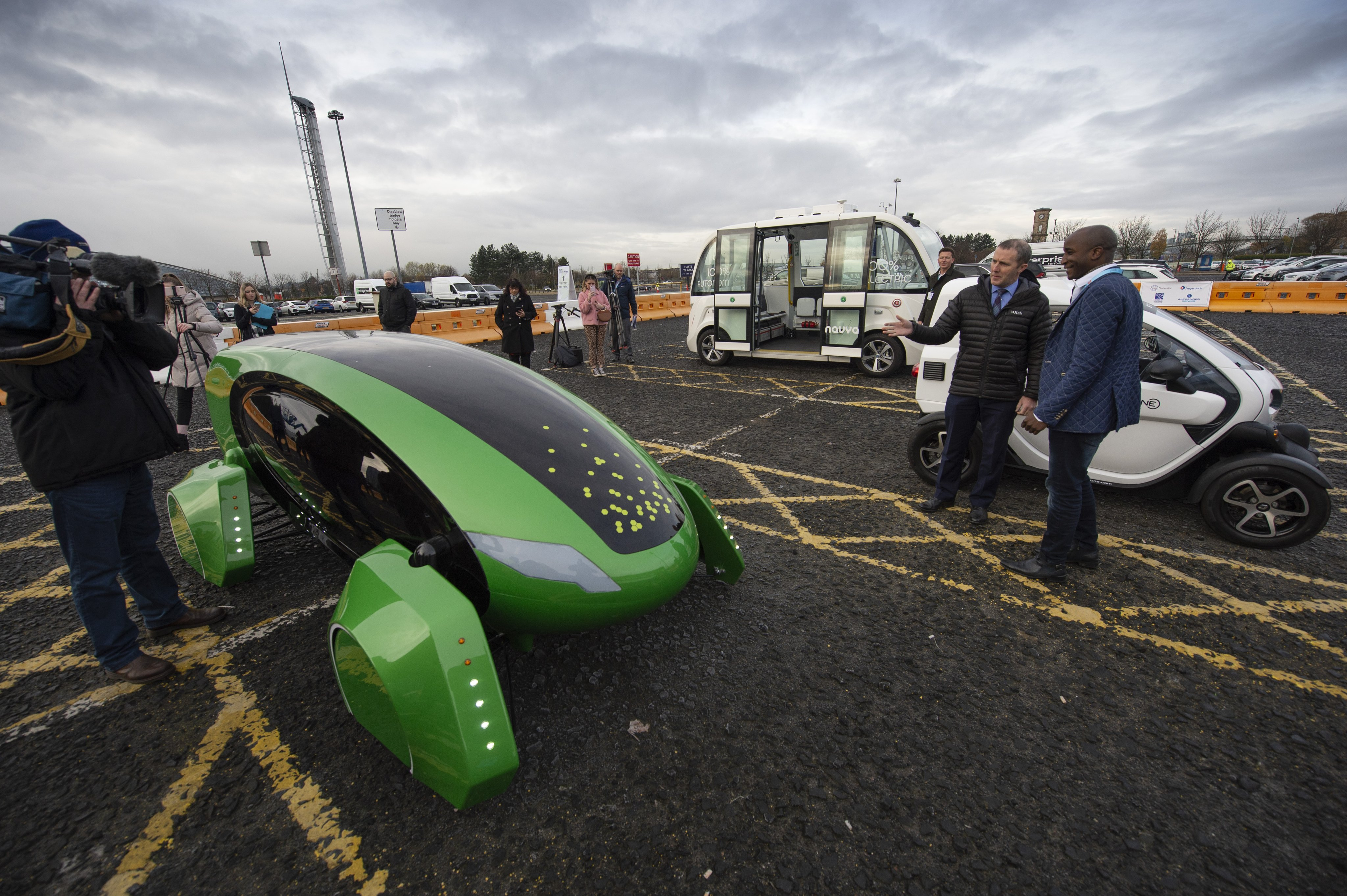 Cabinet Secretary for Transport, Infrastructure and Connectivity pictured with Kar-go Autonomouse Delivery vehicle